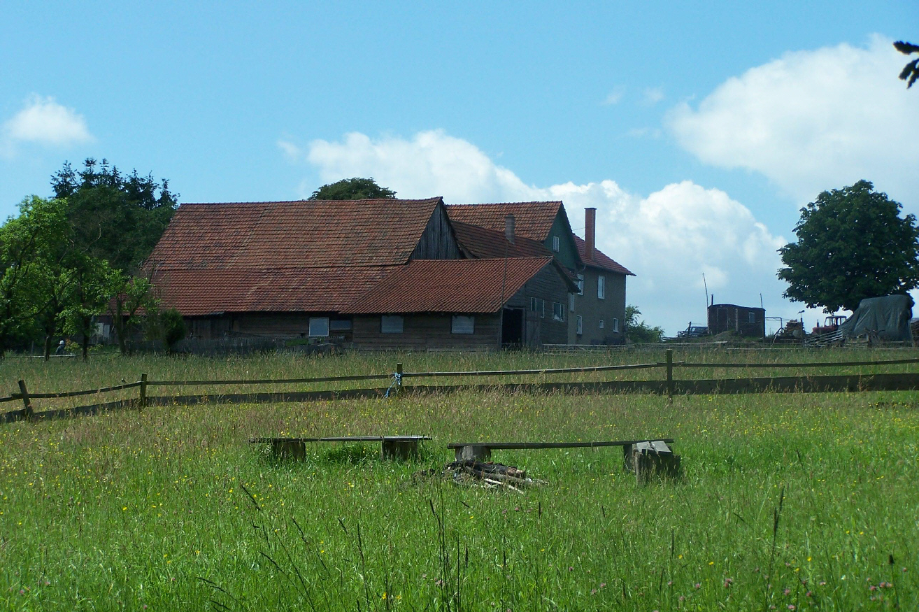 The Lutzberg court near Gerstungen.